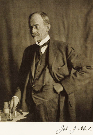 John Jacob Abel (19 May 1857 – 26 May 1938)